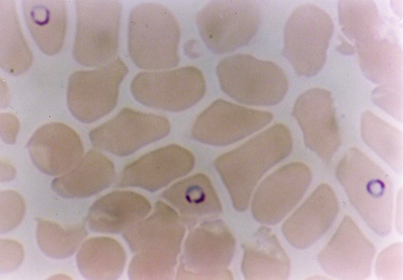 Ring stage of Plasmodium falciparum in human red blood cells